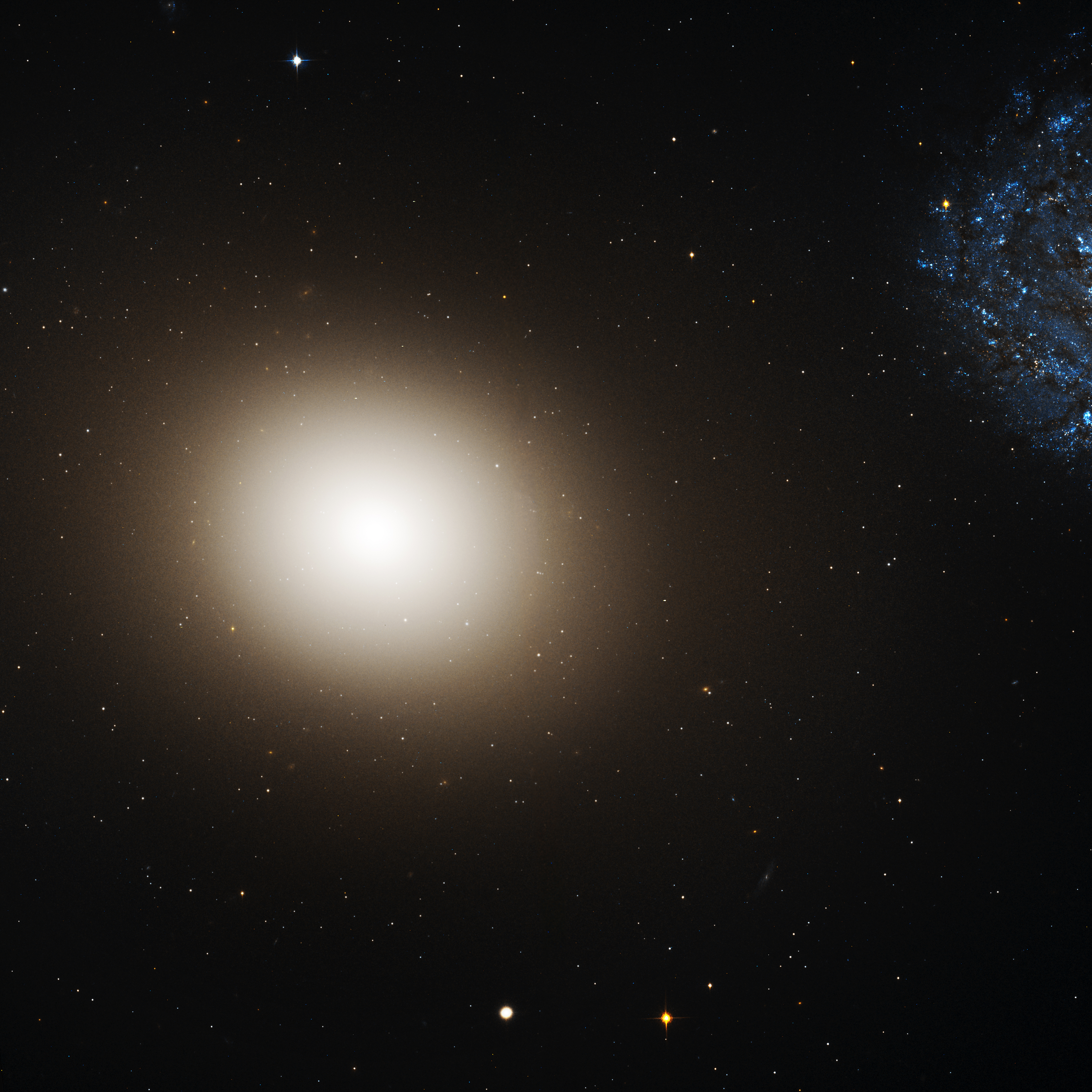 The galaxy known as M60-UCD1 (bright white circle near bottom edge, just to the left of center) is located near a massive elliptical galaxy NGC 4649, also called M60, about 54 million light-years from Earth. This image shows M60 and the region around it. Packed with an extraordinary number of stars, M60-UCD1 is an "ultra-compact dwarf galaxy." It is one of the most massive galaxies of its kind, weighing 200 million times more than our Sun, based on observations with the Keck 10-meter telescope in Hawaii. Remarkably, about half of this mass is found within a radius of only about 80 light-years. This would make the density of stars about 15,000 times greater than found in Earth's neighborhood in the Milky Way, meaning that the stars are about 25 times closer.